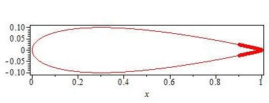 Cross section of an aerodynamic surface following airfoil NACA00xx, with trailing edge emphasised